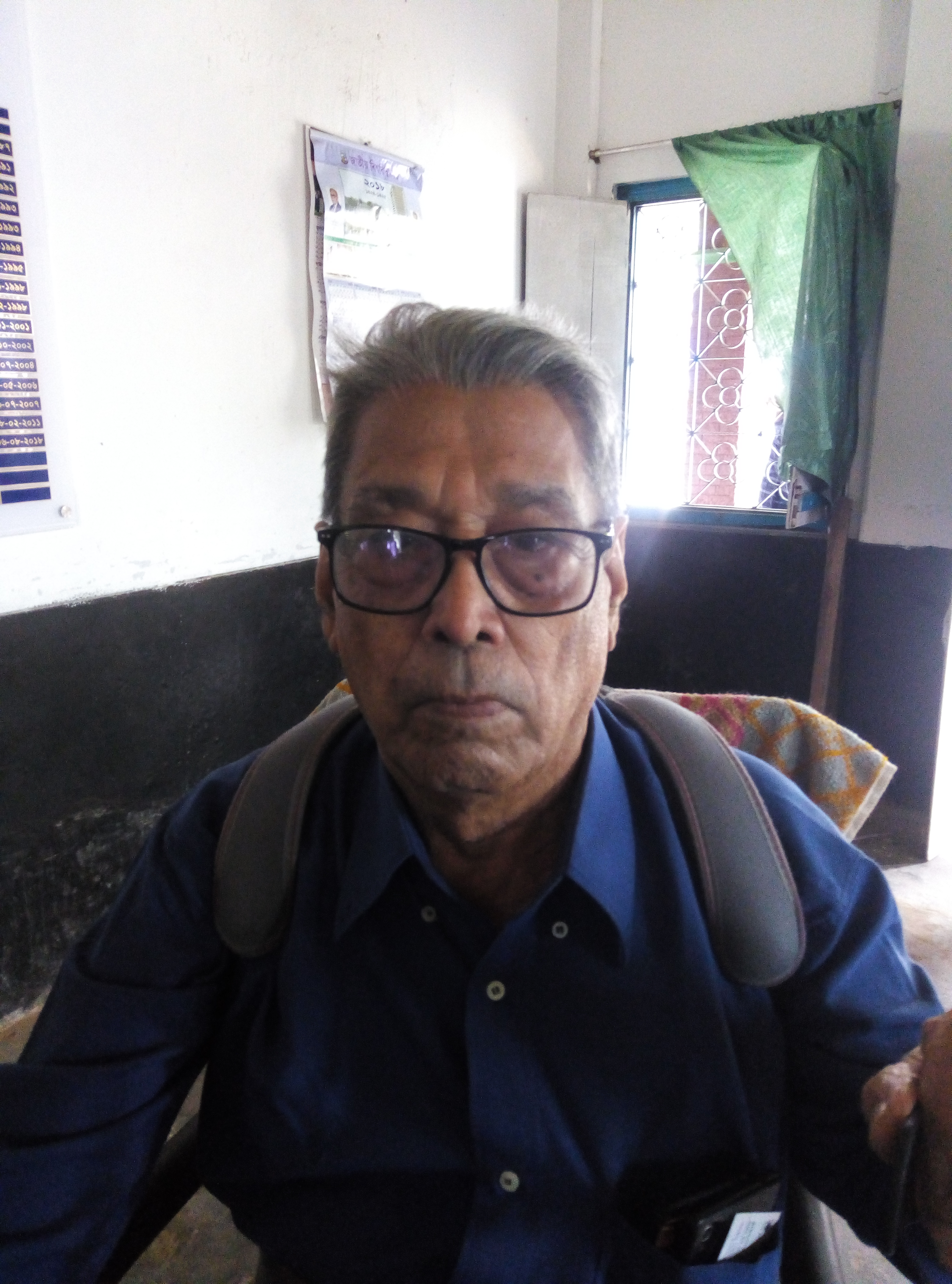 One of the 35 persons accused in the Agartala Conspiracy Case in 1968.